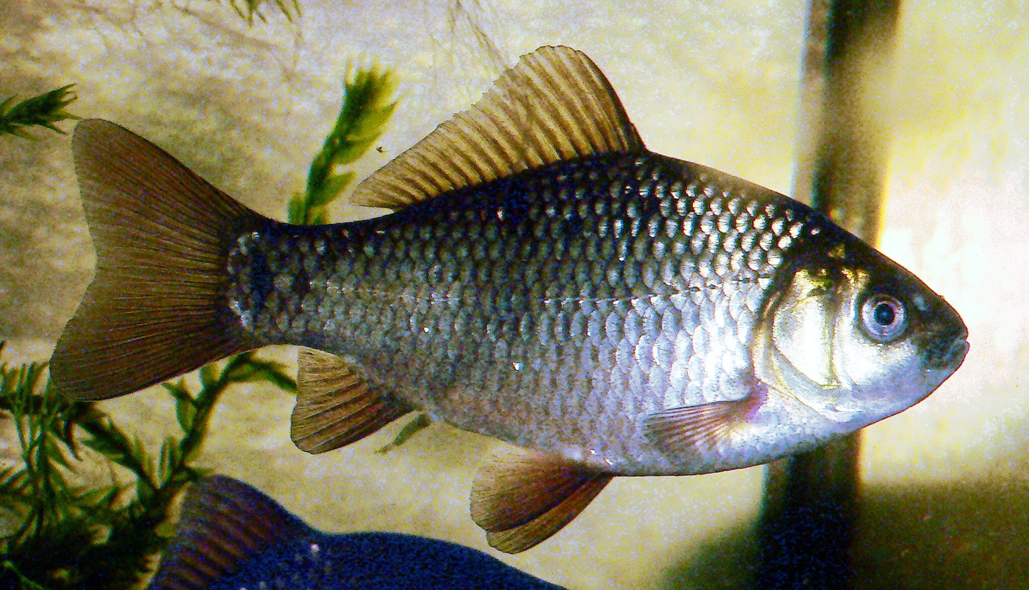 Crucian carp, around 6 months old, 7 cm, from Haarlem, the Netherlands. The eyespot at the base of the tail is fading a little. Observable traits: 33 scales along lateral line, form of dorsal and tail fin (little indentation), body shape high and flat, snout rounded with somewhat upward pointed mouth, color bronze yellow, abdominal and pectoral fins little reddish.